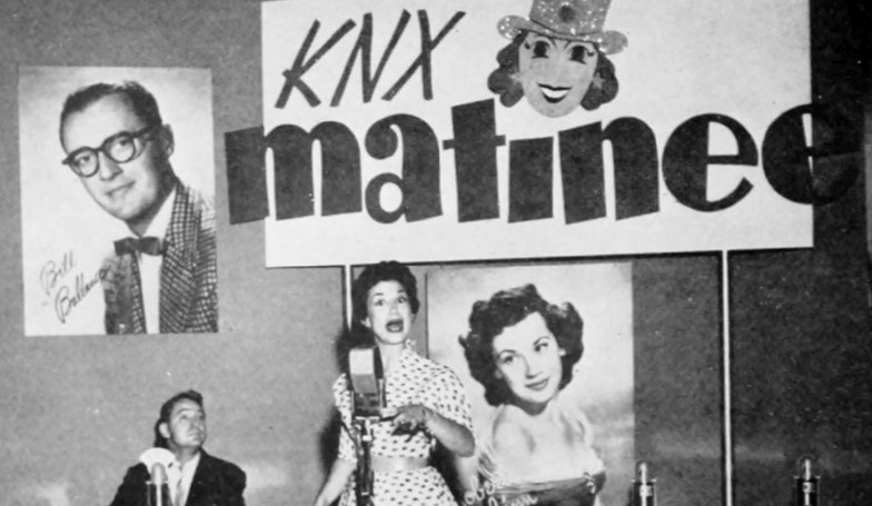 Photo of the KNX Radio program "Matinee". The program was local (Los Angeles area) and was aired in the weekday afternoon. Johnny Jacobs (left) was the master of ceremonies for the program and Roberta Linn (at the microphone) was the show's vocalist. The program also had a studio audience in addition to those in the radio audience. a search for registrations/renewals was done for the magazine publisher, Sponsor Publications, Inc. There were no listings for this company at . There's no evidence of continuing copyright on the publication.